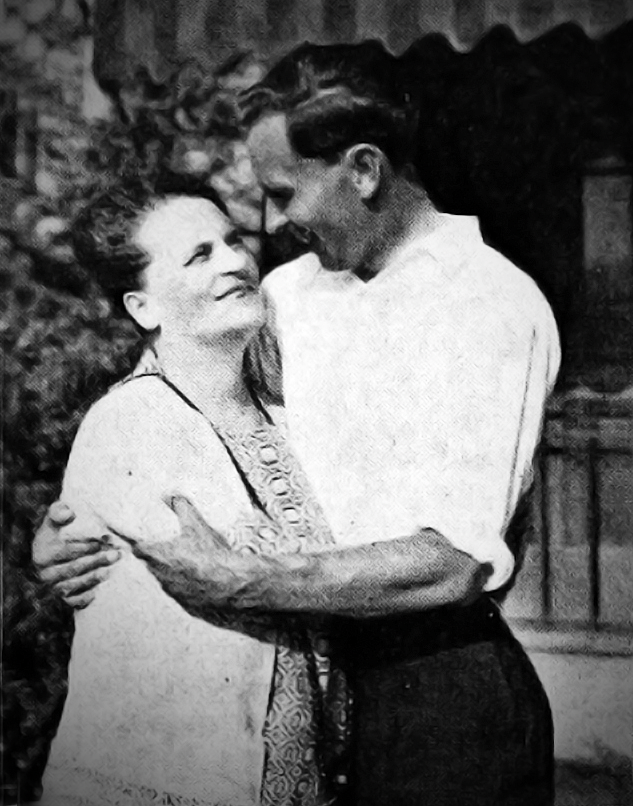 Emily Johnson and son Emory in 1923